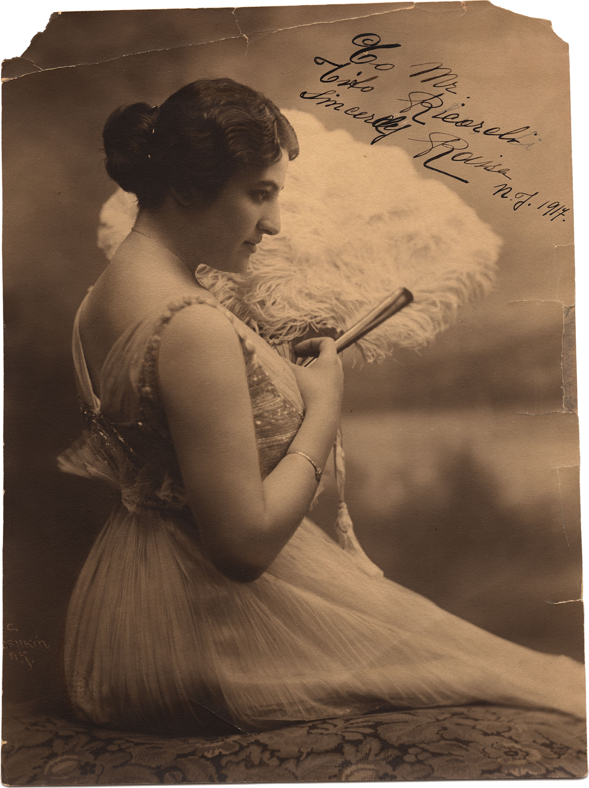 Portrait of Rosa Raisa, soprano (1893-1963). Photo by Herman Mishkin, 1917.